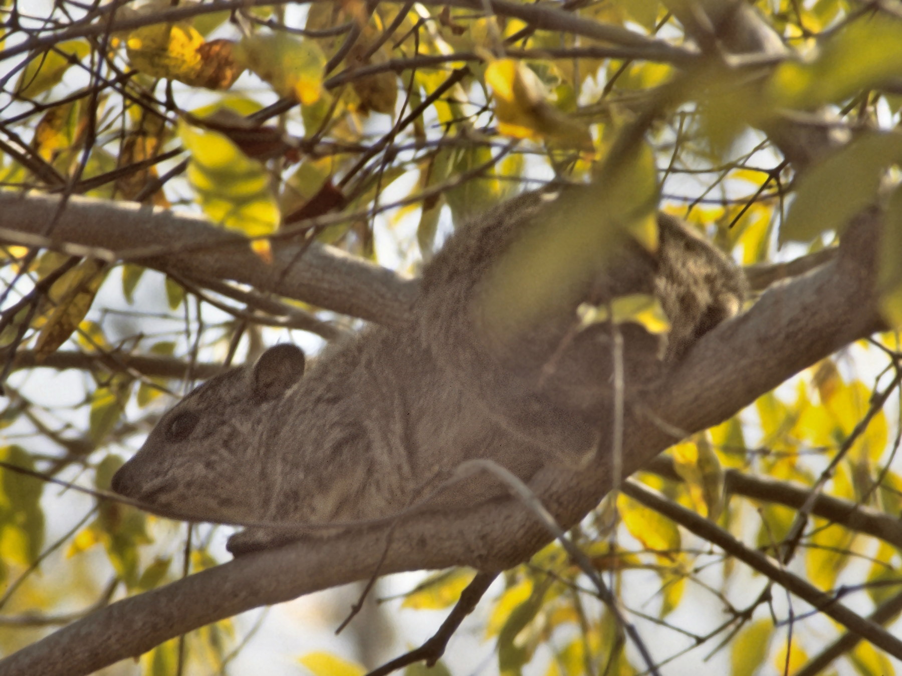 at Cape Maclear, Malawi.